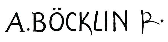 autograph of the Swiss painter Arnold Böcklin